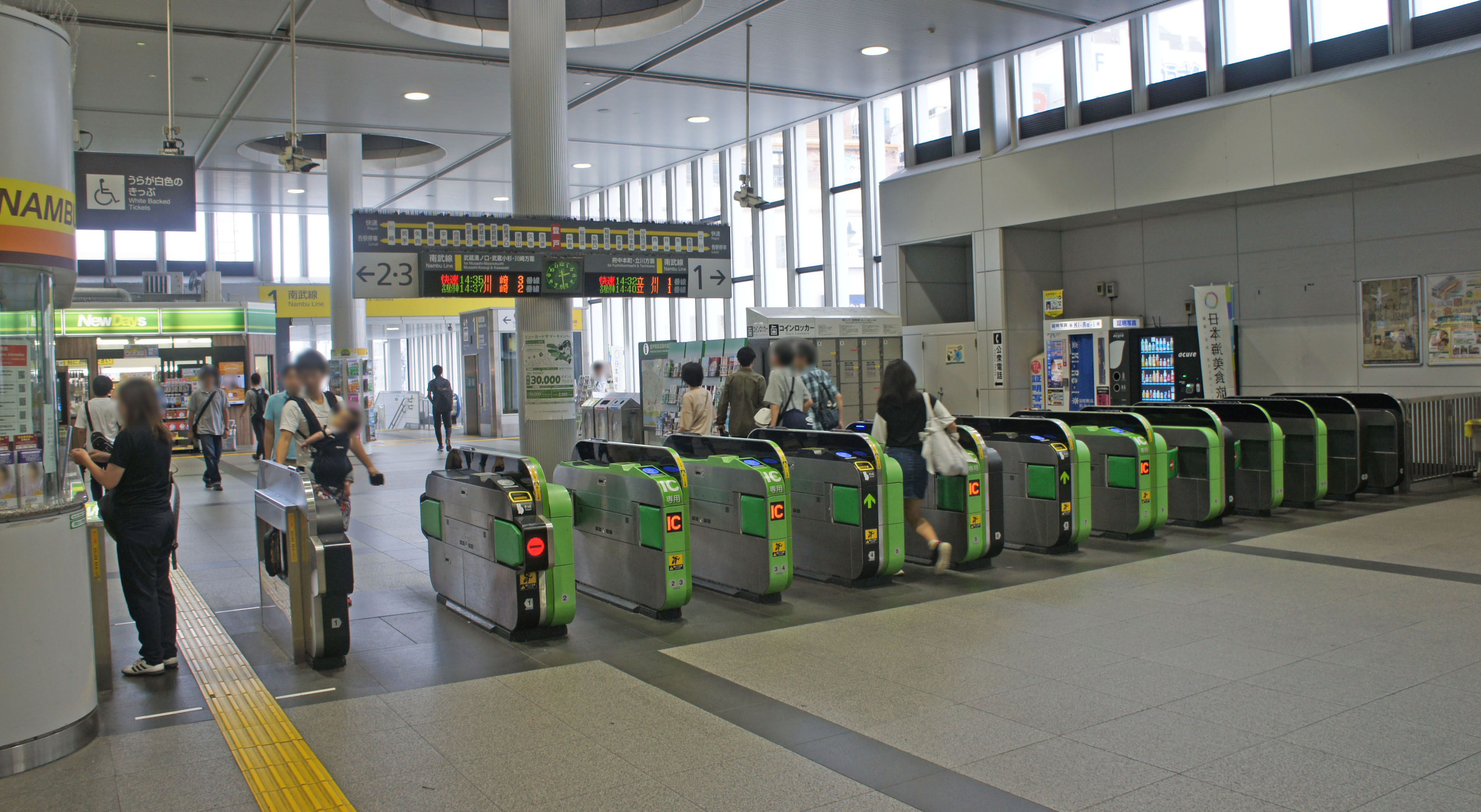 Gates of JR Nambu-Line Noborito Station